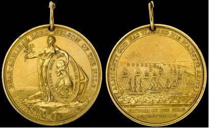 United Kingdom: Davison's Medal for the Battle of the Nile 1798 Ribbon: No official ribbon, normally worn from a wide blue ribbon. Instituted: In 1799 by Admiral Nelson's prize agent, Alexander Davison. Awarded: For participation in the Battle of the Nile on 1 August 1798. Grades: 4, awarded by rank. -Gold, awarded to Nelson and his captains. -Silver, awarded to lieutenants and warrant officers. -Copper-Gilt, awarded to petty officers. -Bronzed copper, awarded to ratings, marines, etc.